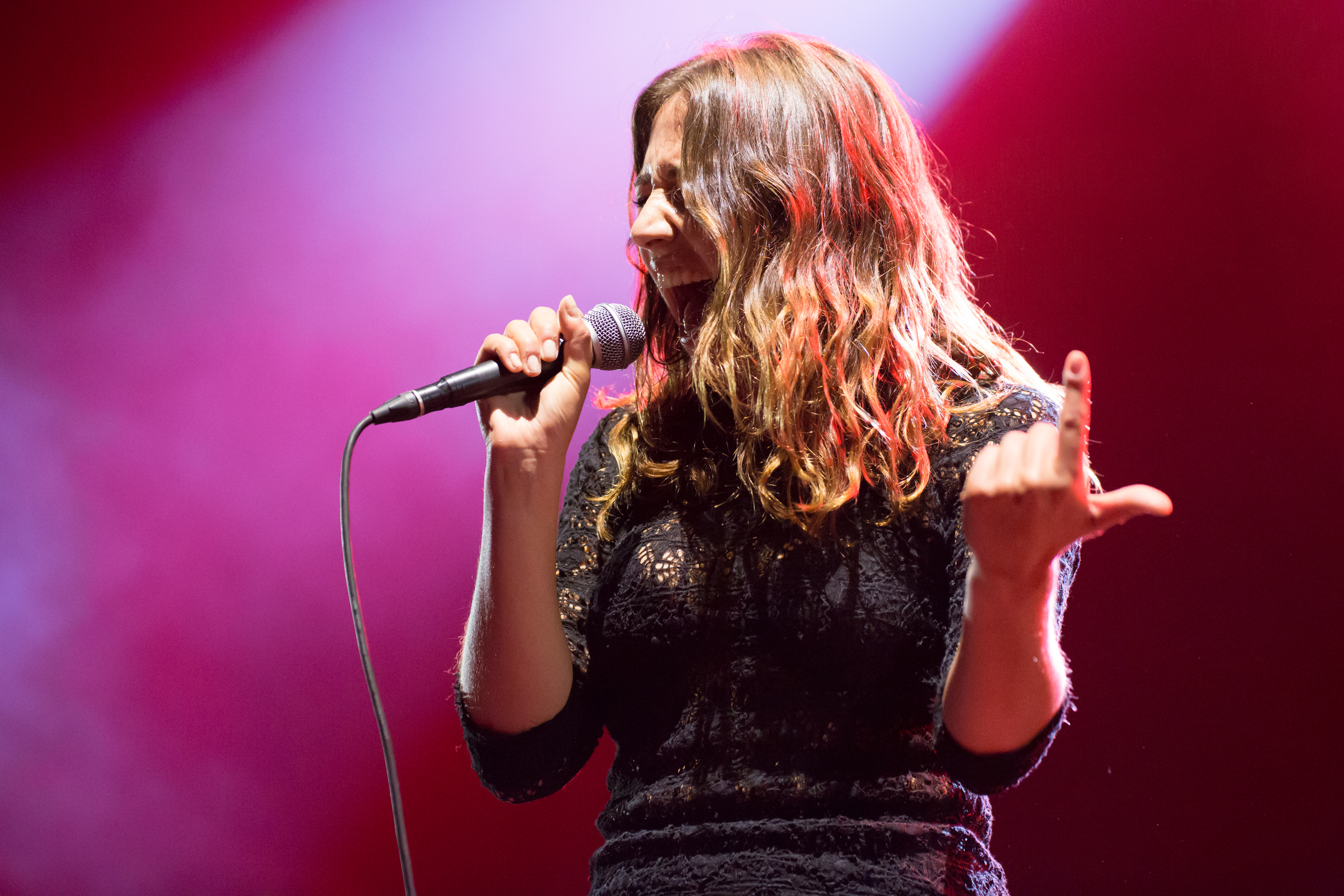 Izïa Higelin at "le weekend des curiosités 2015", Ramonville, France